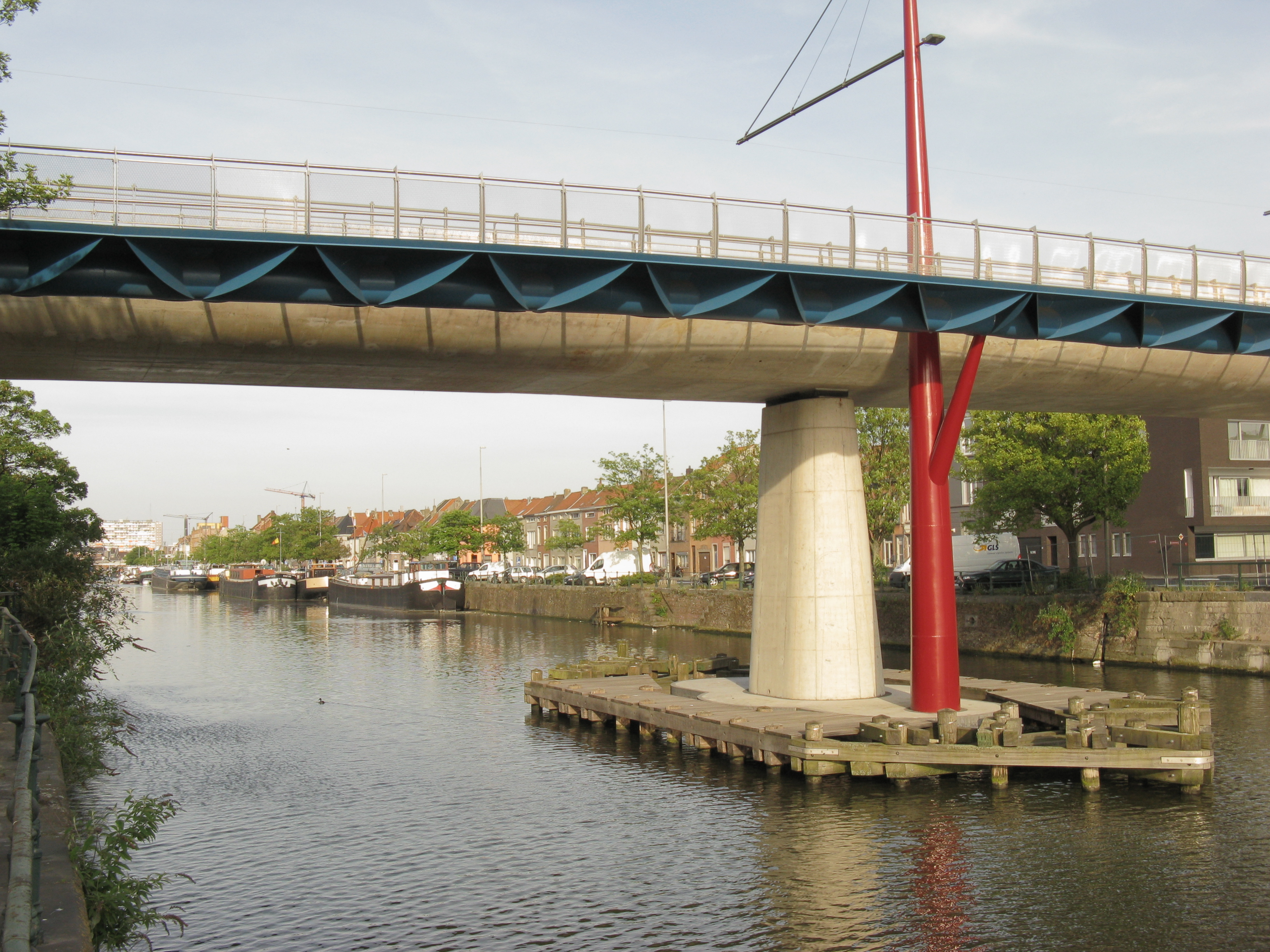 Canal "Verbindingskanaal" in Ghent, Belgium.